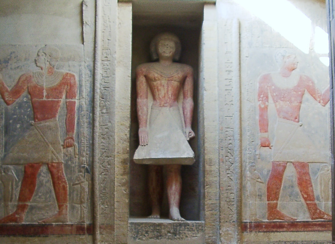 Mereruka vizier's funeral statue in front of his false door at his Saqqara tomb